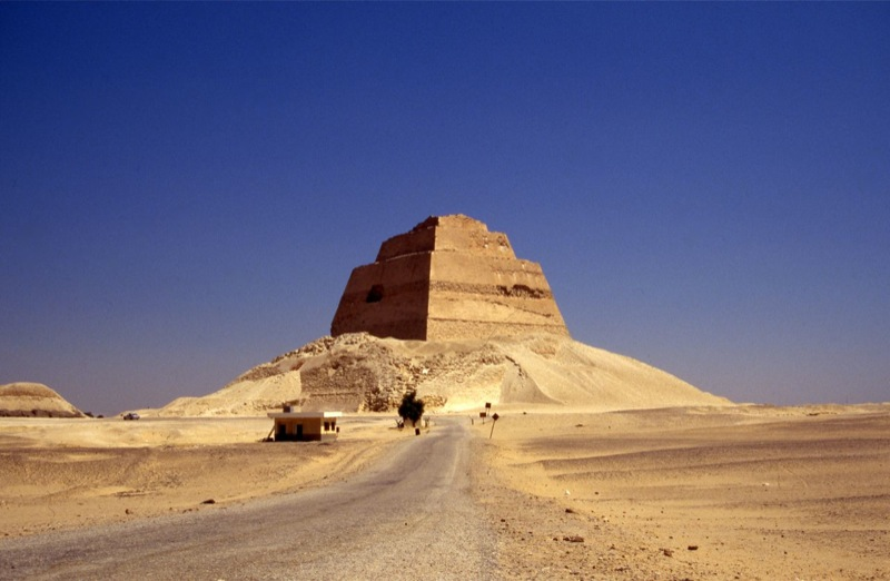 The collapsed pyramid of Snefru (c.2613 - 2598 BC) at Meidum, Egypt